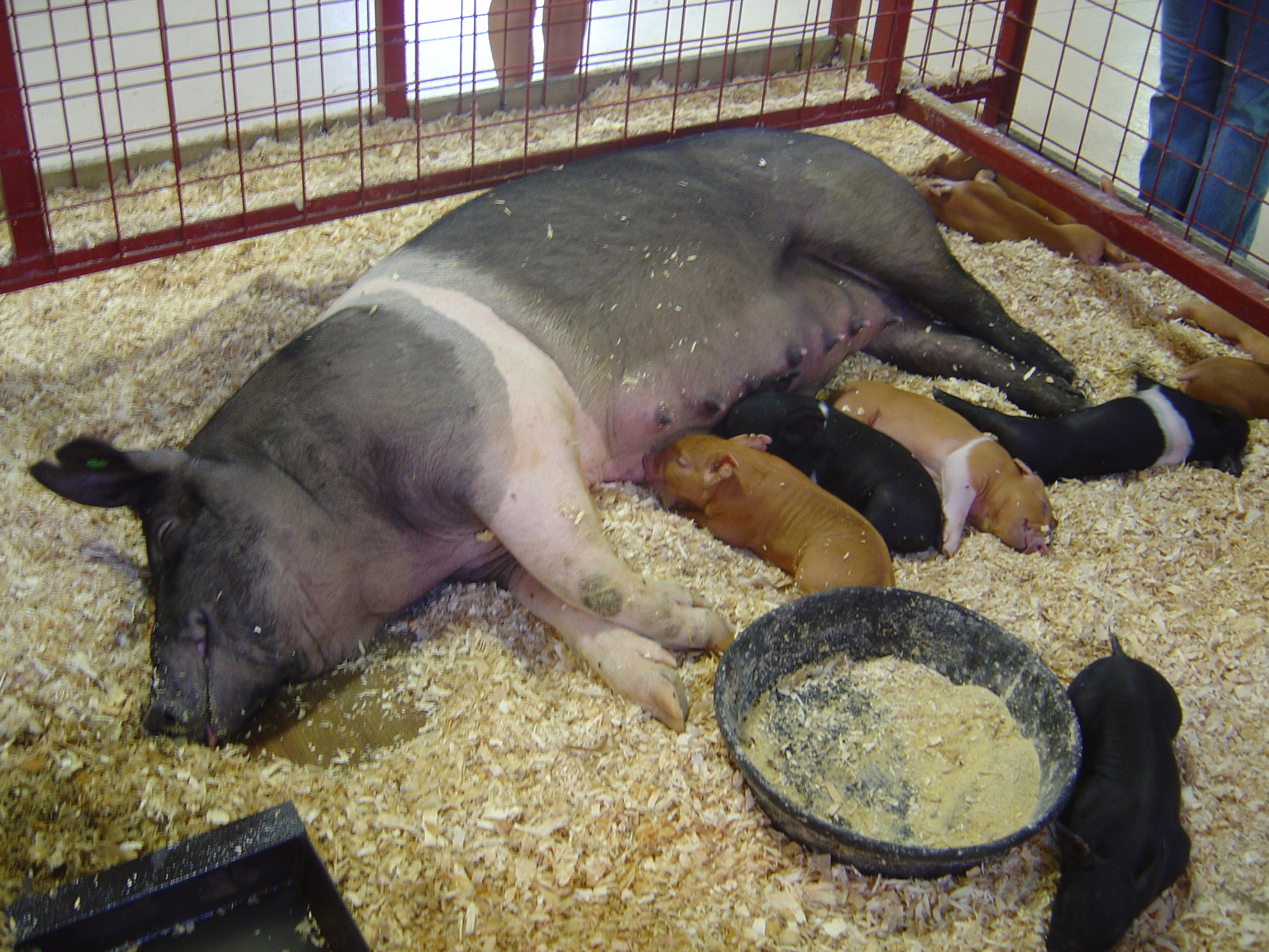 A sow and her piglets at the State Fair of Virginia, 2007. Photograph taken by Joy Schoenberger.